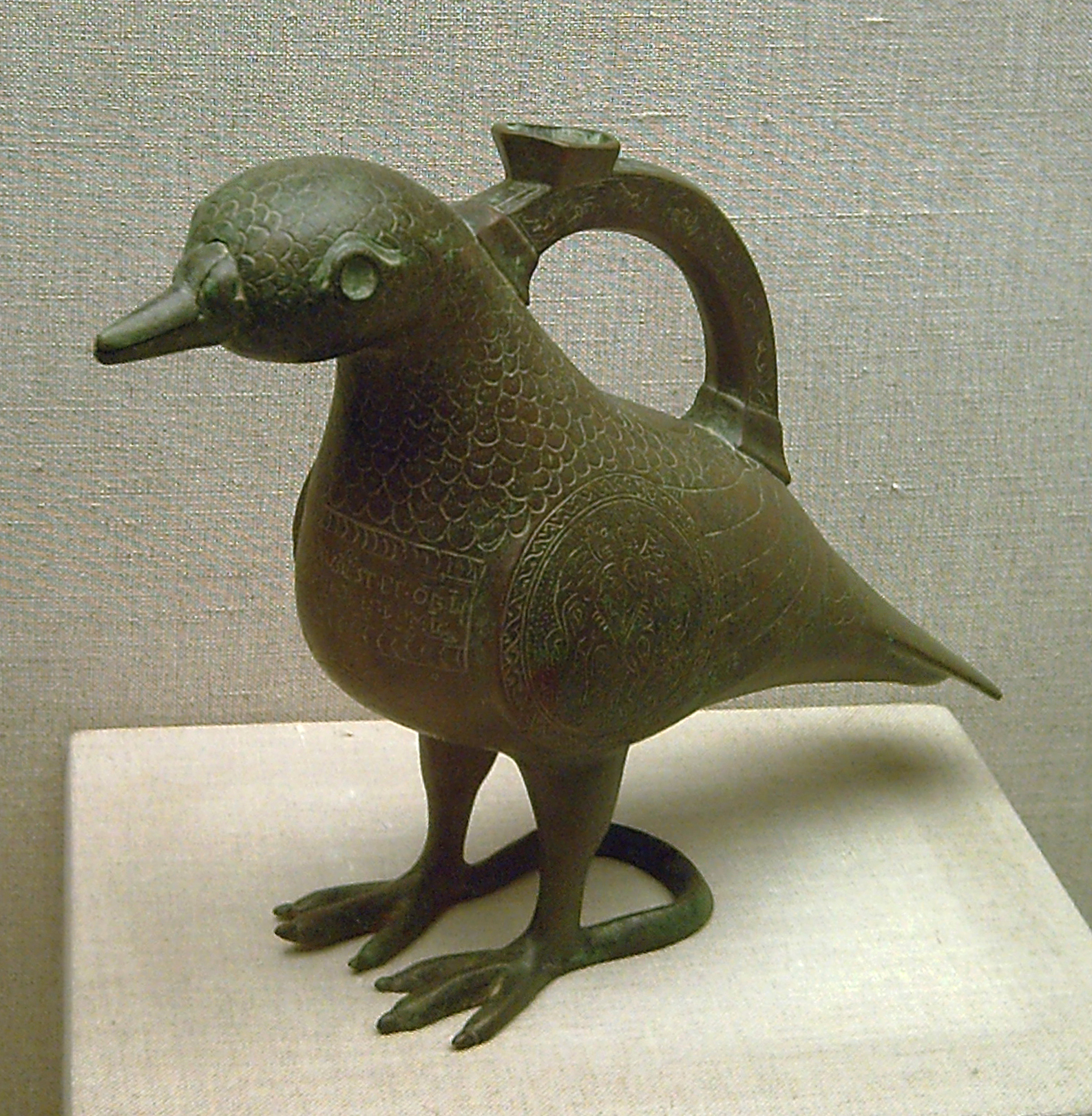 A dove-shaped aquamanile. Beak is articulated in order to pour water.